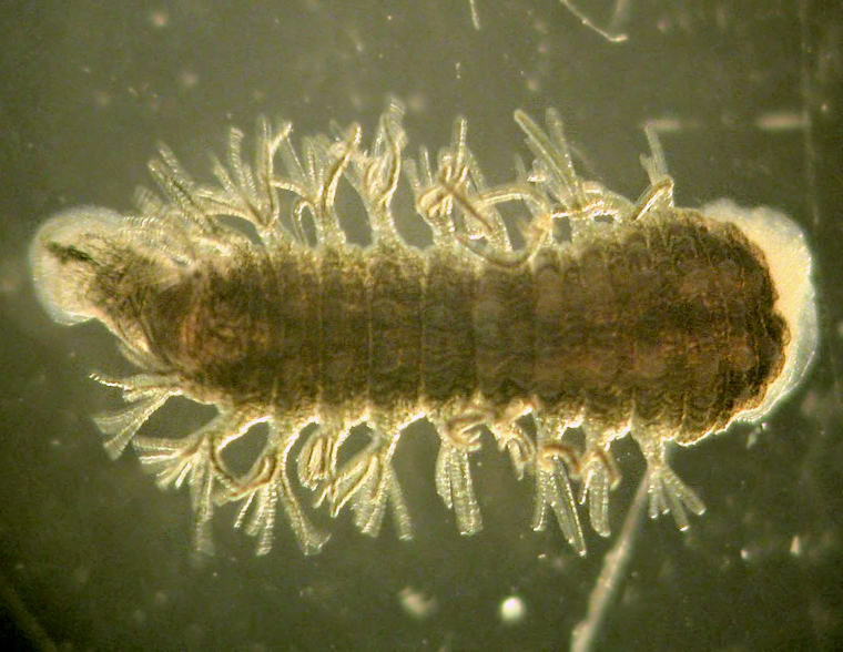 Stereoscopic micrograph of Ozobranchus jantseanus (dorsal view).